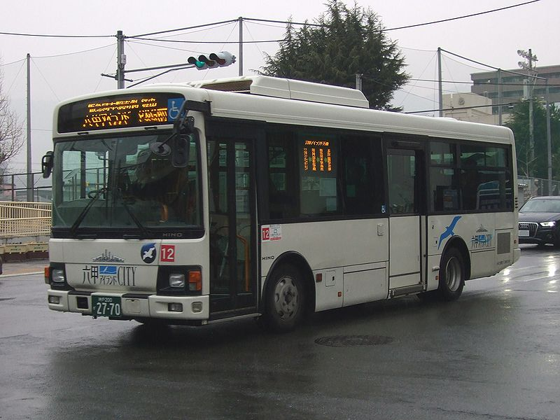 Minato Kanko Bus Route No.12 みなと観光バス